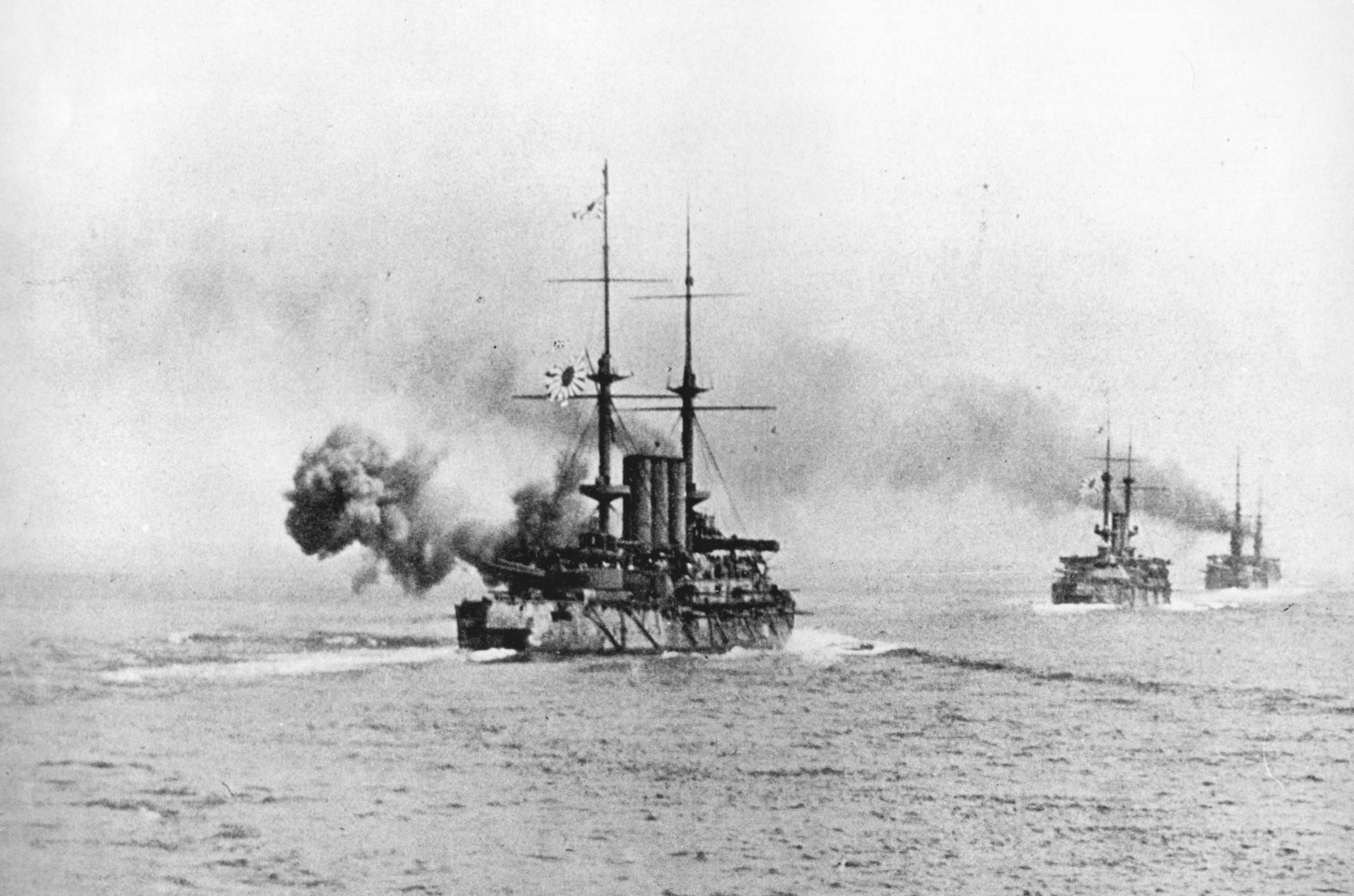 日本海軍戦艦敷島型「敷島」 黄海海戦中、旅順口沖にて撮影。(Taken during the Battle of the Yellow Sea during the Battle of the Yellow Sea, with the Japanese Navy Battleship "Sikishima".